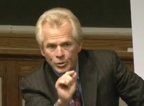 @ The Gerald R. Ford School of Public Policy at the University of Michigan on 9/24/2012